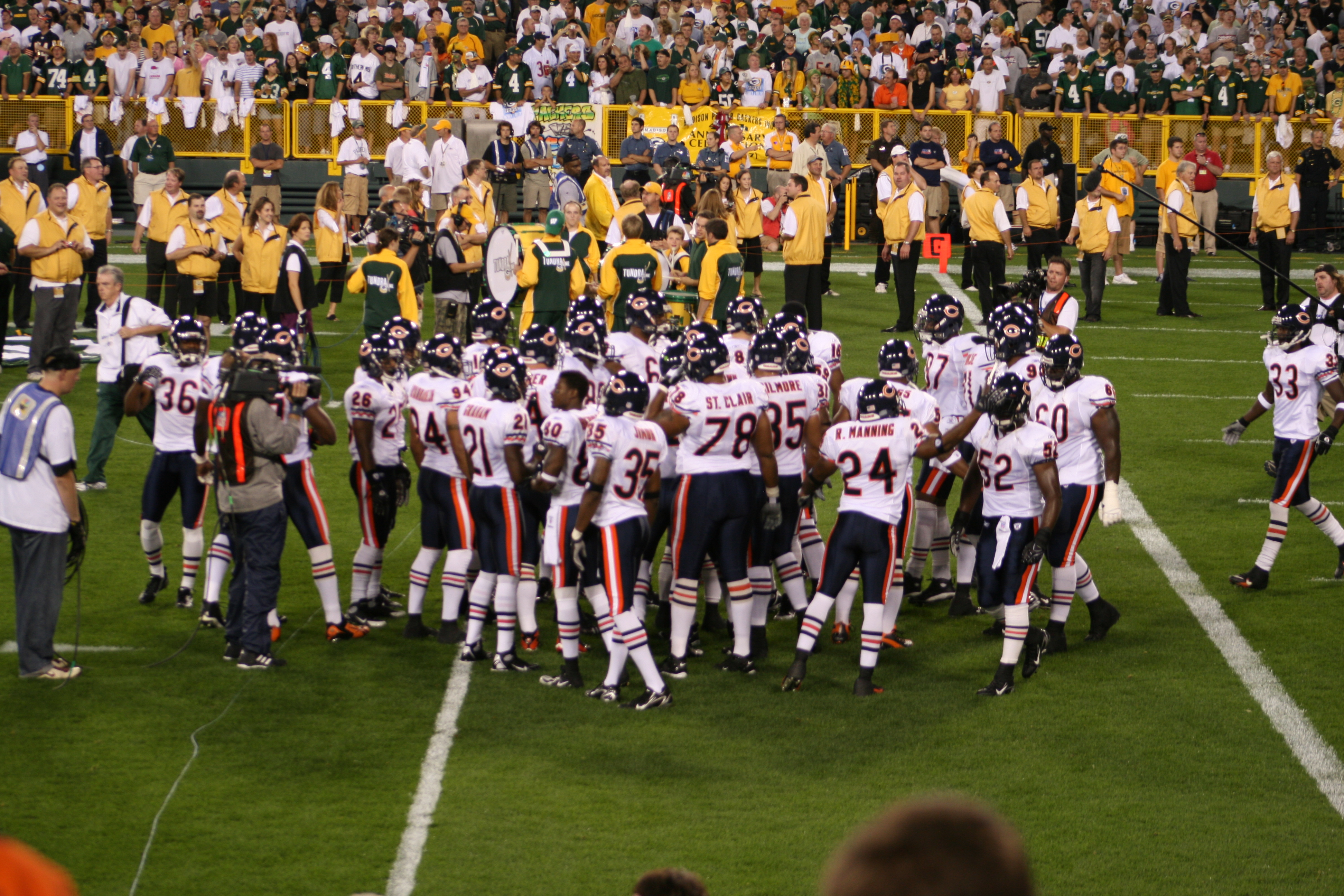 The Chicago Bears huddle up during pre-game warmups.